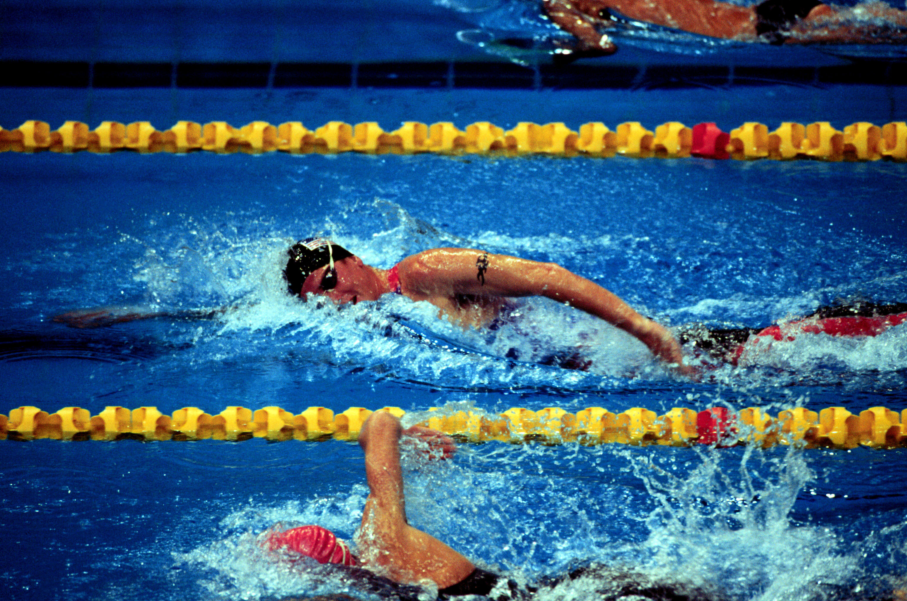 Chad Senior competes in the 200 meter swim which is a part of the Modern Pentathlon competition during the 2000 Olympic games in Sydney, Australia.